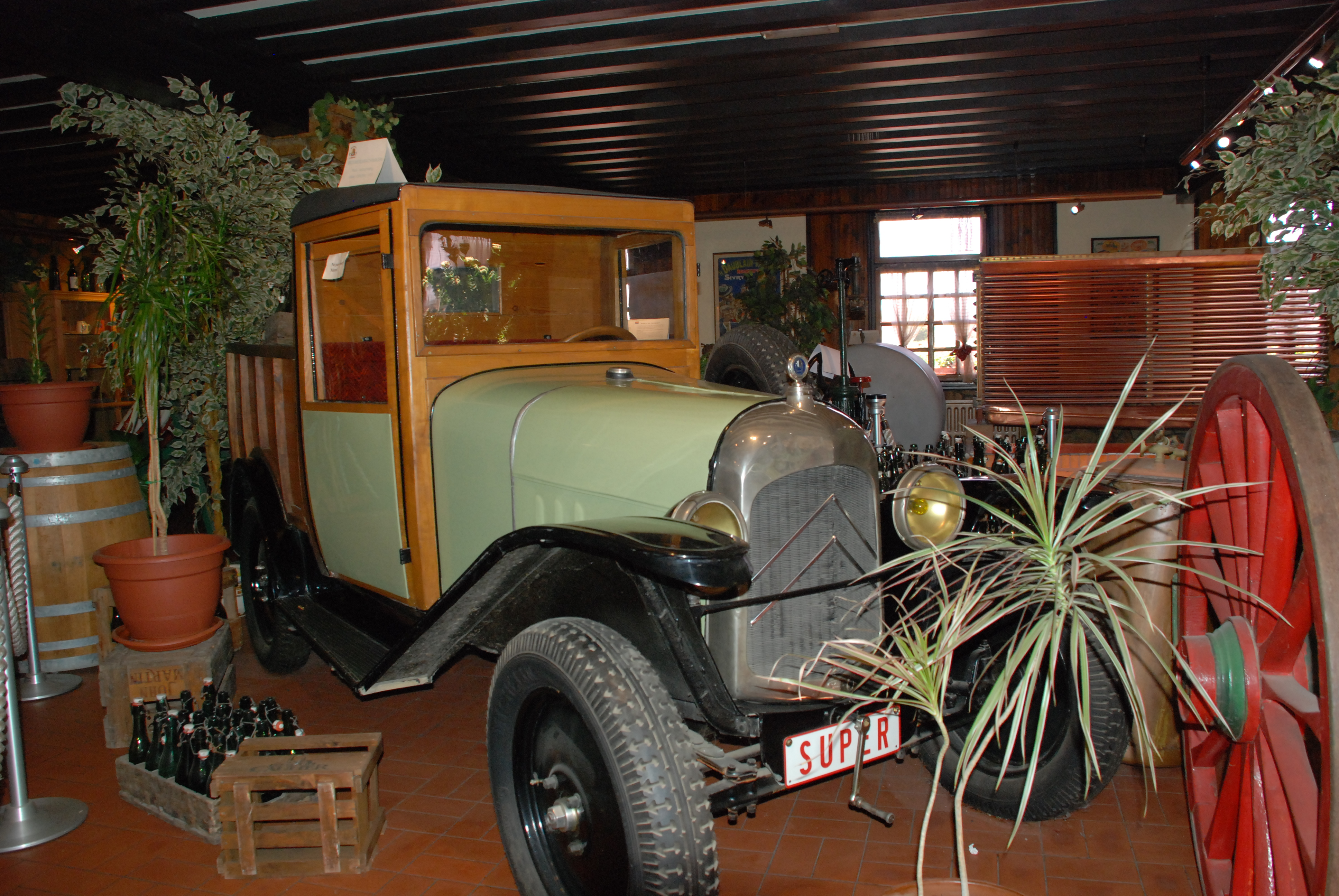 Small museum with old brewery machines, inside brewery "Brasserie des Fagnes" in Mariembourg (Belgium)